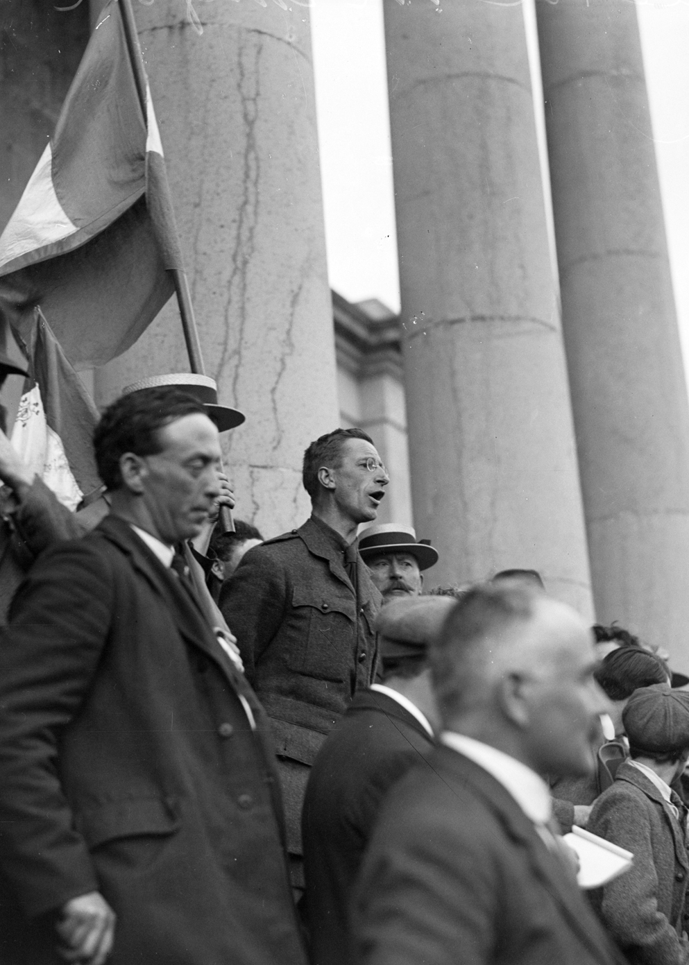 Éamon de Valera in full flight on the steps of Ennis Court House, Co. Clare. Wanted to find out if this was in 1923 (rather than any other year in which the Long Fellow might have been electioneering), and also that he was arrested shortly after this speech. Thanks very much to DannyM8 for proving fairly conclusively that this photo was taken circa Wednesday, 11 July 1917! As usual, any and all information about this photograph will be welcomed with open arms! Photographer: Keogh Brothers, Dublin Date: Circa Wednesday, 11 July 1917 NLI Ref.: Ke 132